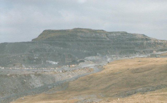 Graig Ddu Quarry One of the few opencast quarries in the Blaenau Ffestiniog area. Underground work did not start here until the 1920s, eighty years after quarrying operations began. Much of the underground workings have been destroyed by untopping in the last 25 years.